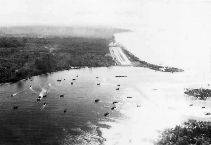 Aerial view of the fighter strip at Torokina, Bougainville, and Empress Augsta Bay.